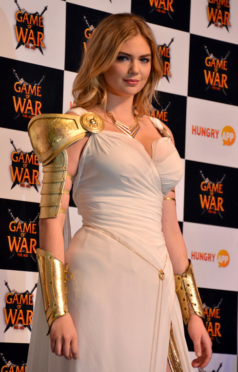 Kate Upton at G-Star 2014